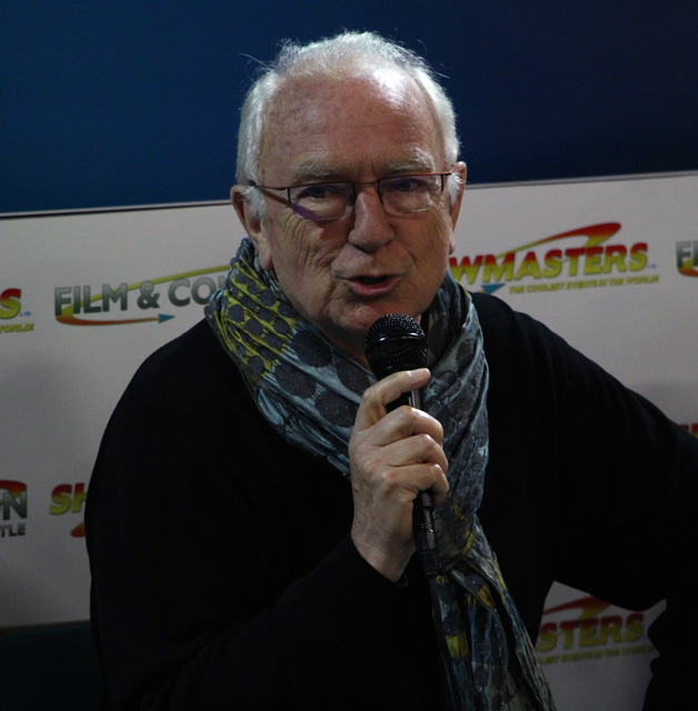 Paul Freeman at convention